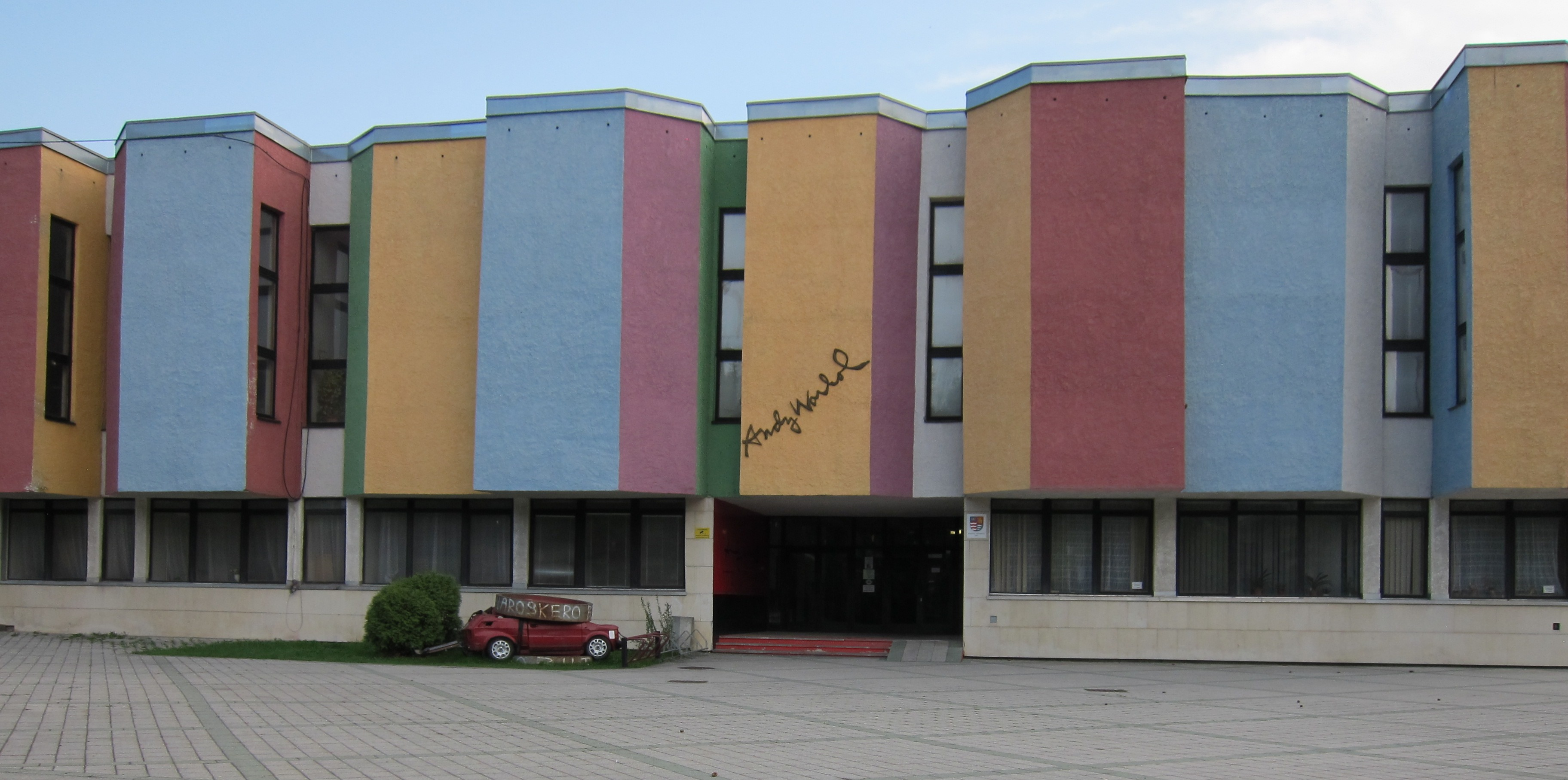 Andy Warhol Museum of Modern Art. Medzilaborce, Slovakia